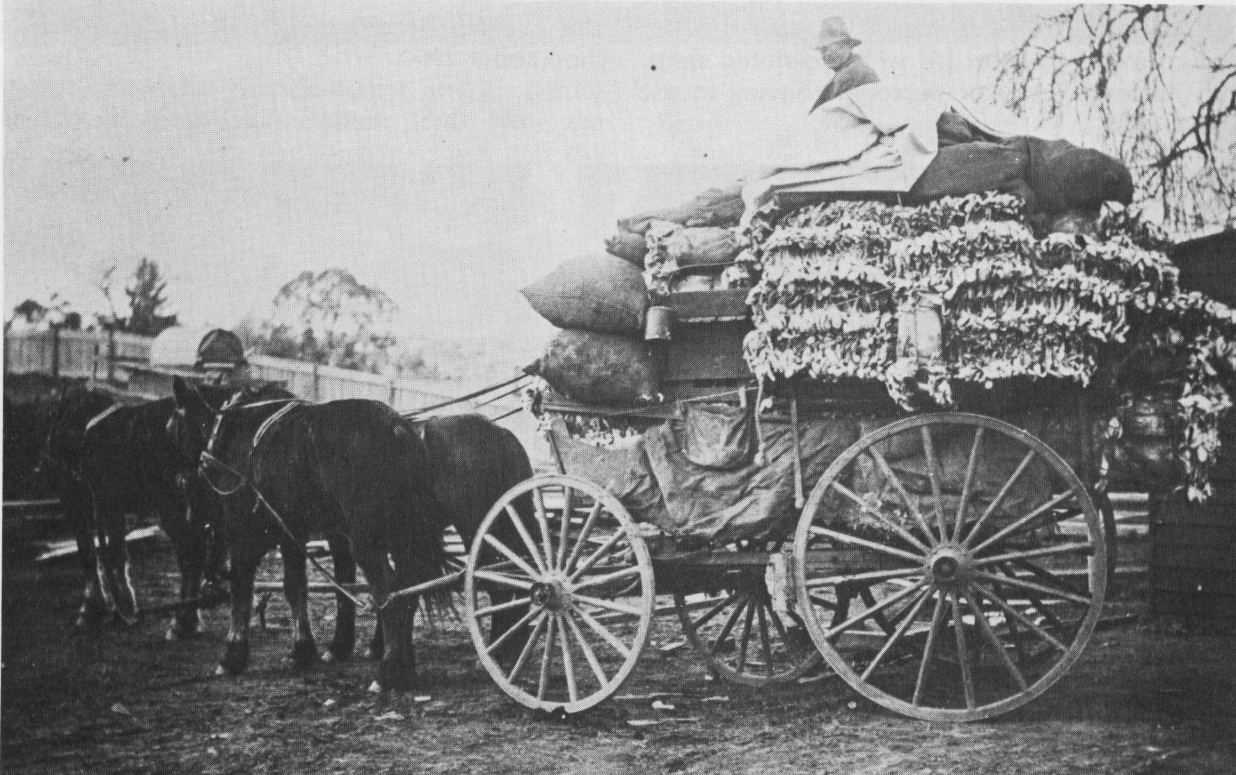 Bert Mann with a load of rabbit skins, Walcha, NSW